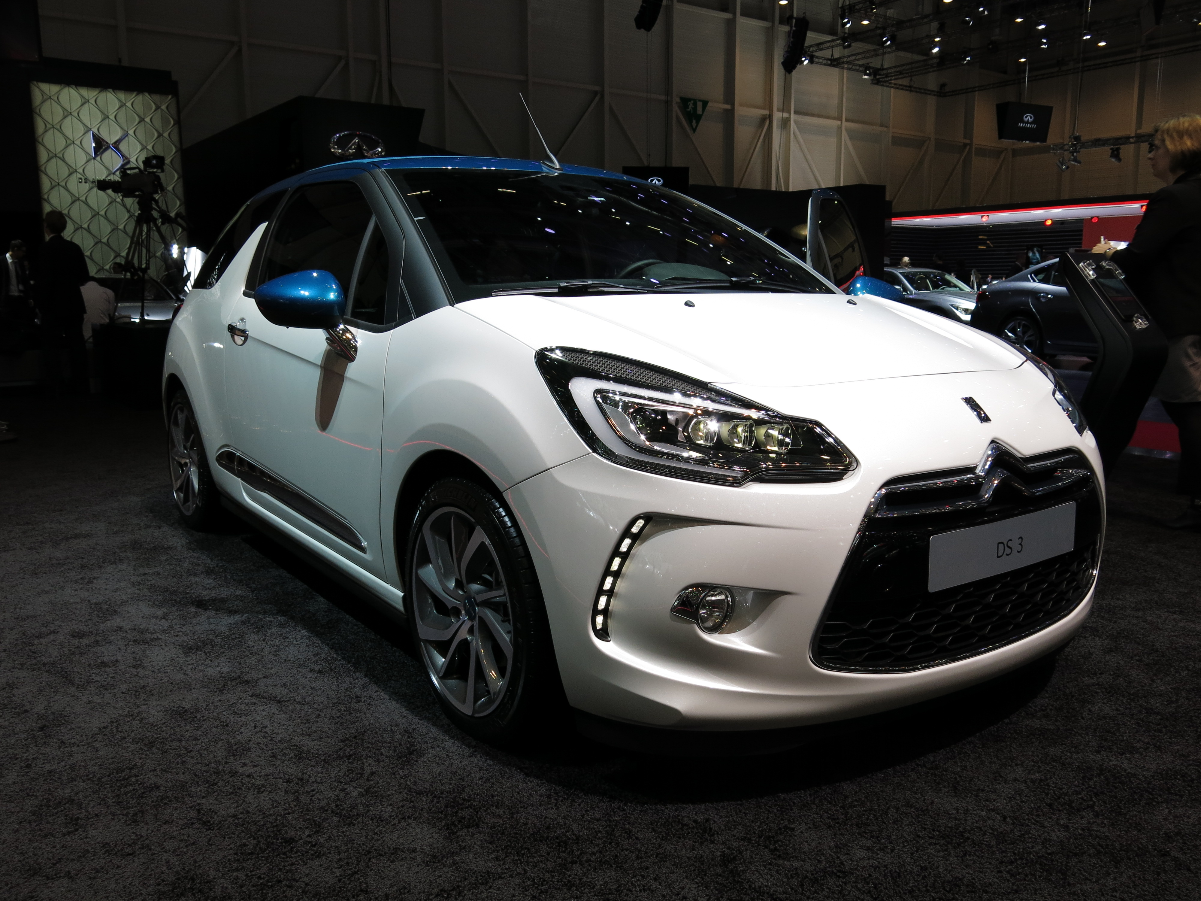 Geneva Motor Show 2015 (photo taken on the first press day)